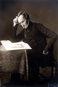 David Abeel (1804-1986), American missionary of the Dutch Reformed Church with the American Reformed Mission.